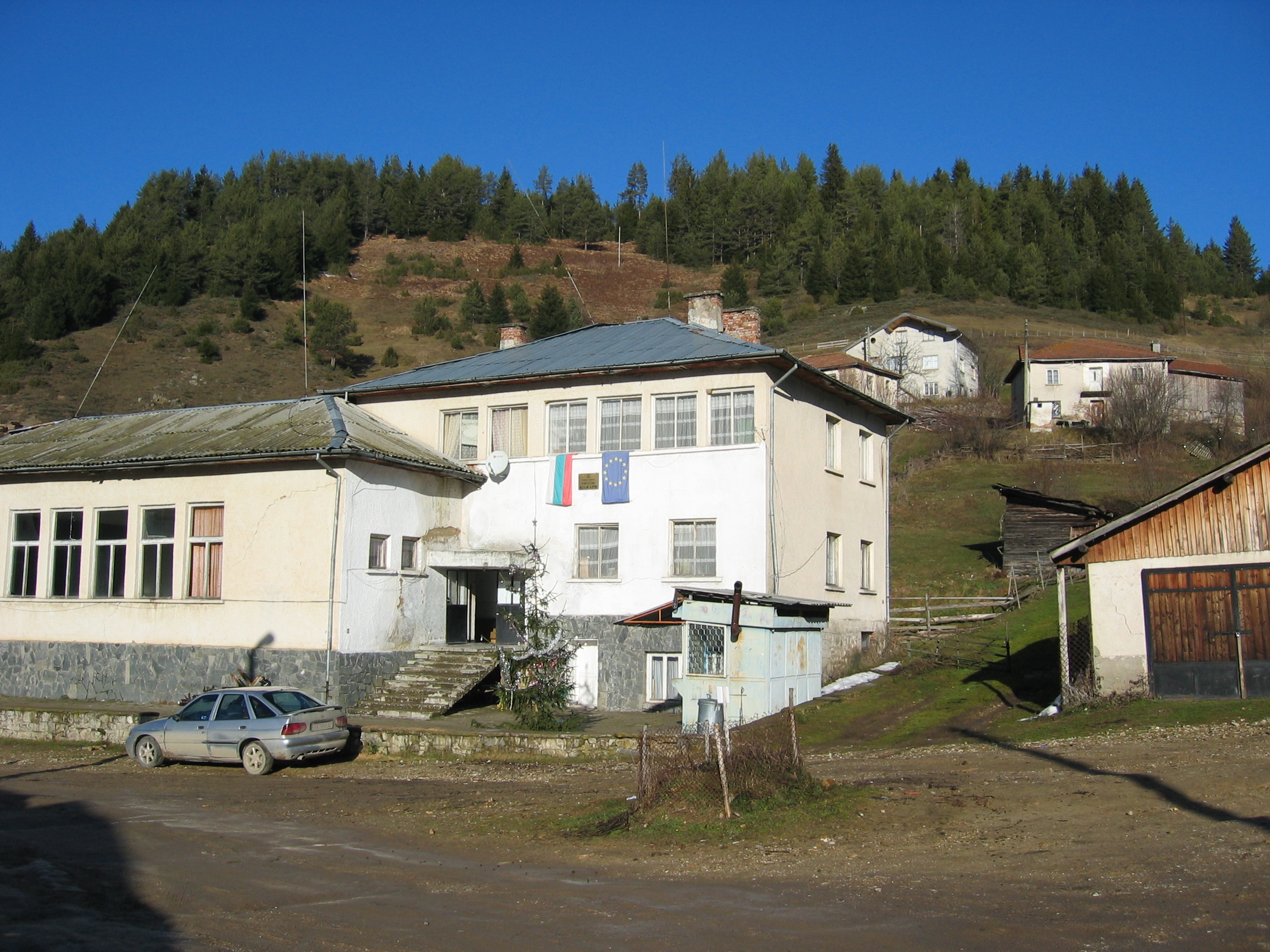 Kozari